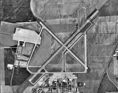 Atterbury AAF 7 Aug 1997 Source: United States Geological Survey digital orthophotoquad via TerraService WebMap Server